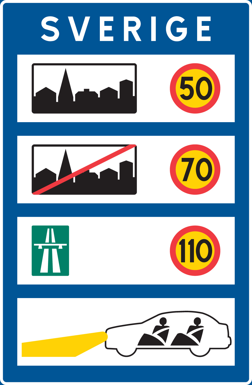 Swedish National Speed Limit for border crossings. The lowest box also advises that daytime running lamps or headlights must be used at all times, and all occupants must wear a seat belt, per Swedish law.